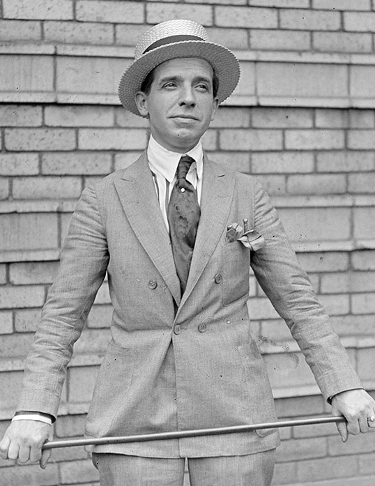 From Florida Times Union article about Ponzi